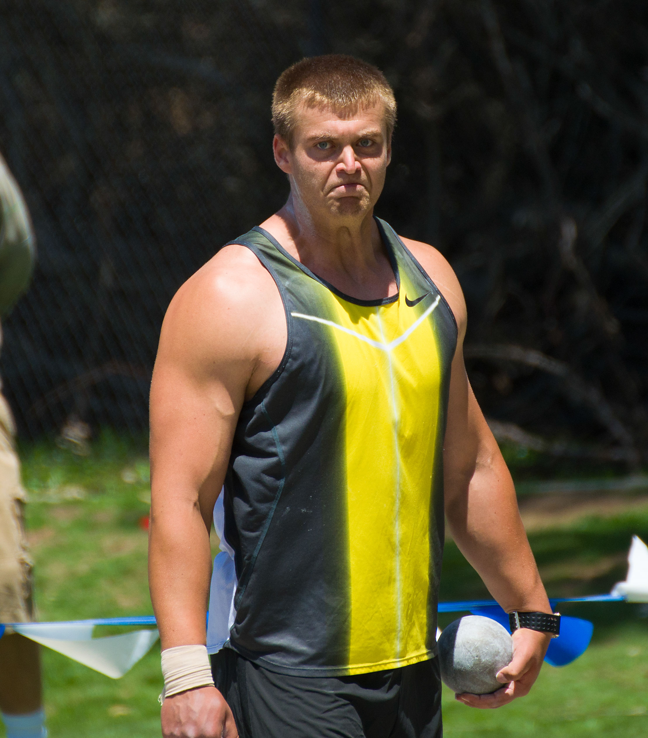 Triton Invitational 2012 014 Lajos Kurthy of Hungary